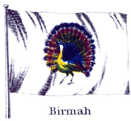 A Burmese peacock flag in 1860s, cropped from File:National and Commercial Flags of All Nations, 1868.jpg